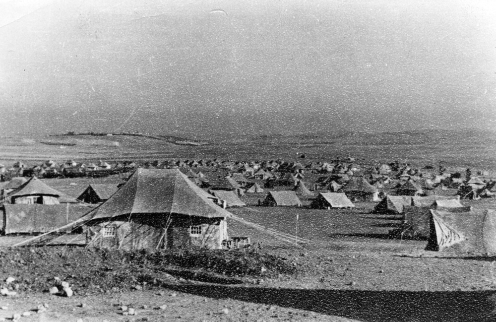 Polish Carpathian Brigade in Palestine, Camp in Homs